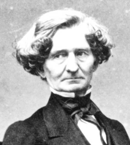 Photo of Hector Berlioz (1803 – 1869)